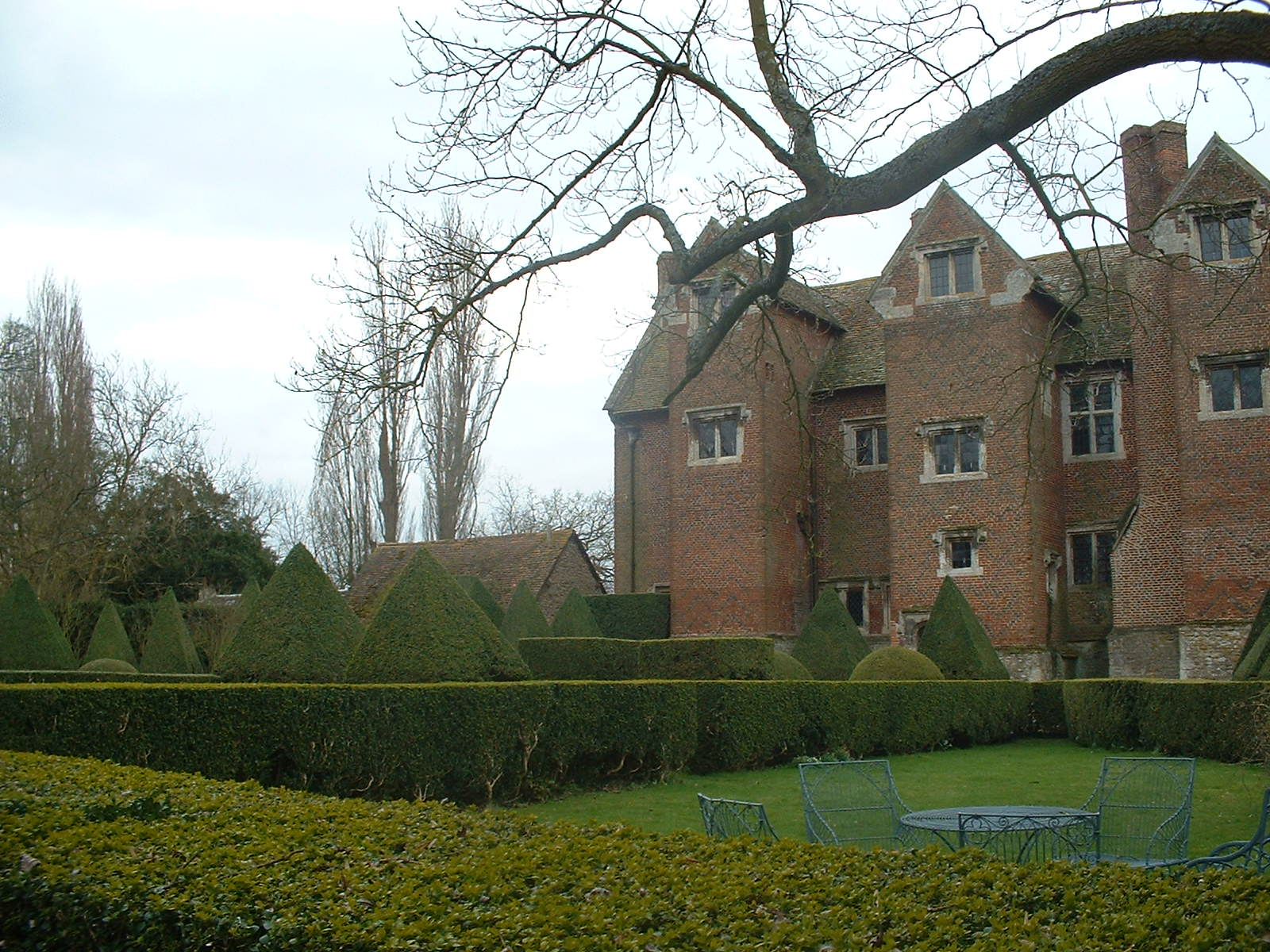 Northeast face of Beckley Park manor including topiary garden, Beckley, Oxfordshire, UK